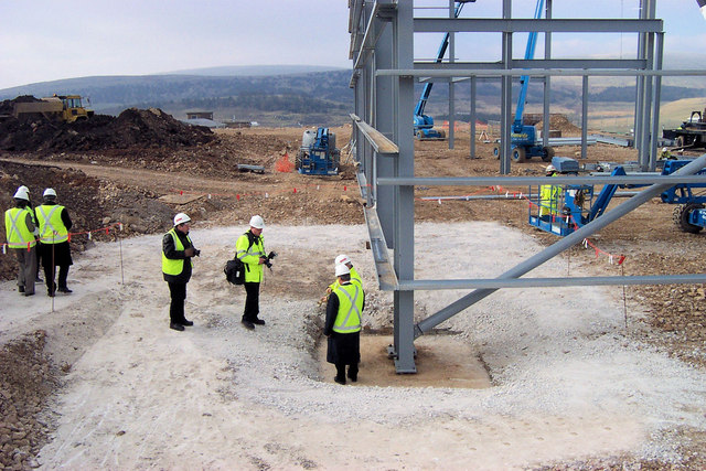 Bolt tightening Ceremony at the New HSE Laboratory near Buxton Representatives of the HSL (Health and Safety Laboratory) and Shepherd Construction. The lab moved from Sheffield. Steel frame by Billington Structures.